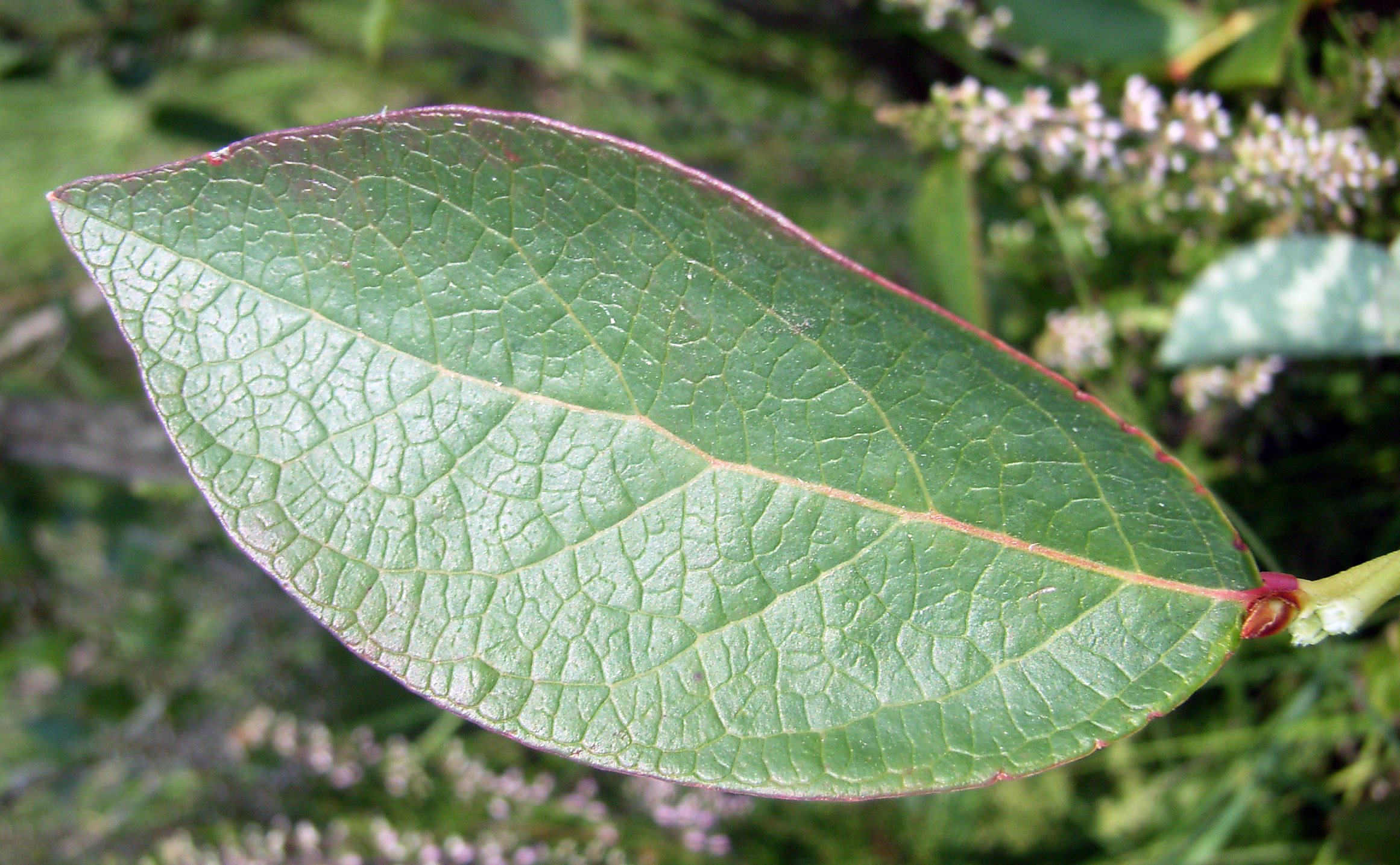 Vaccinium cf. corymbosum in a raised bog in Lower Saxony (Germany), upper leaf side